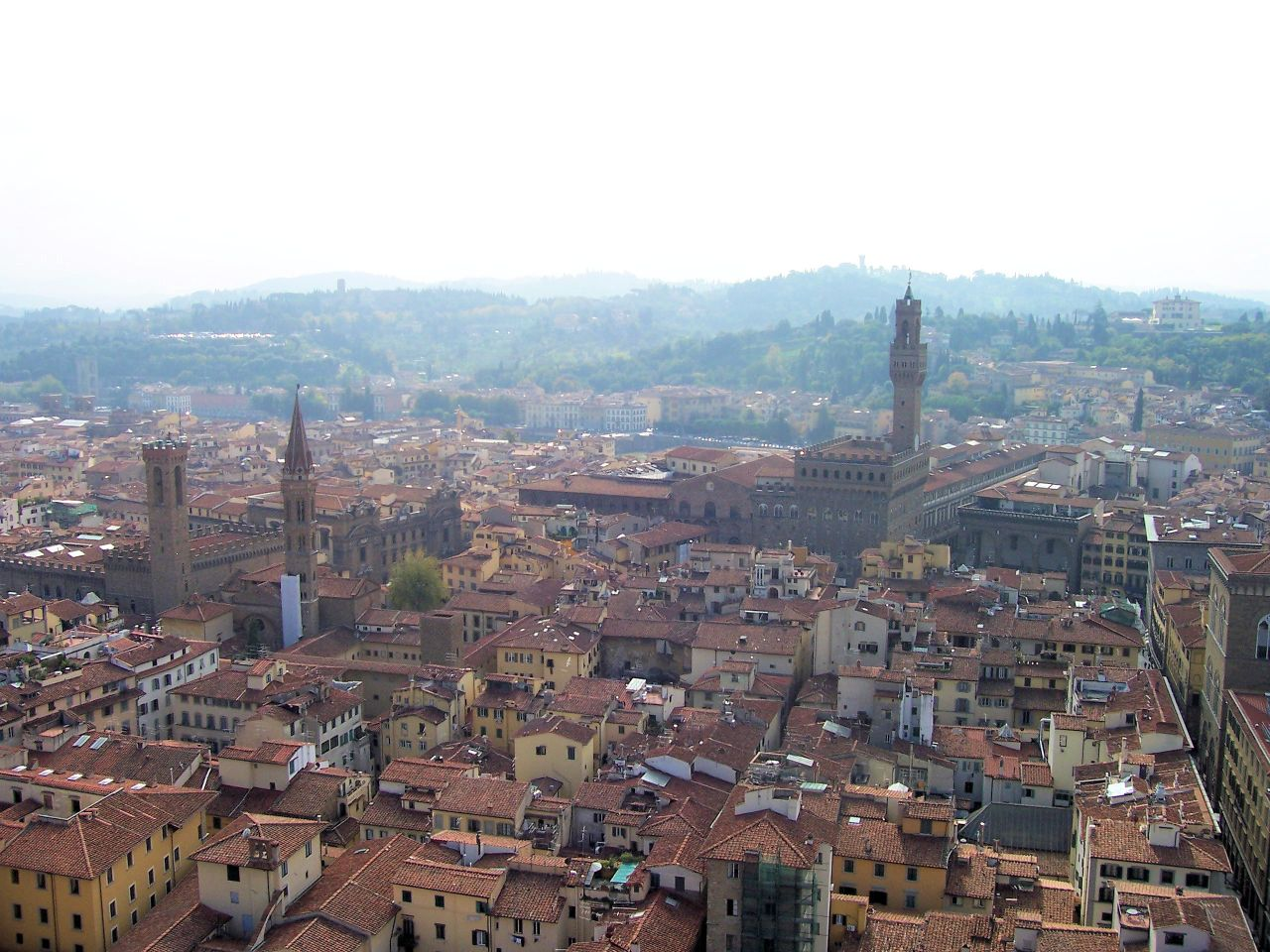 View from Bell Tower, Firenze, Italy